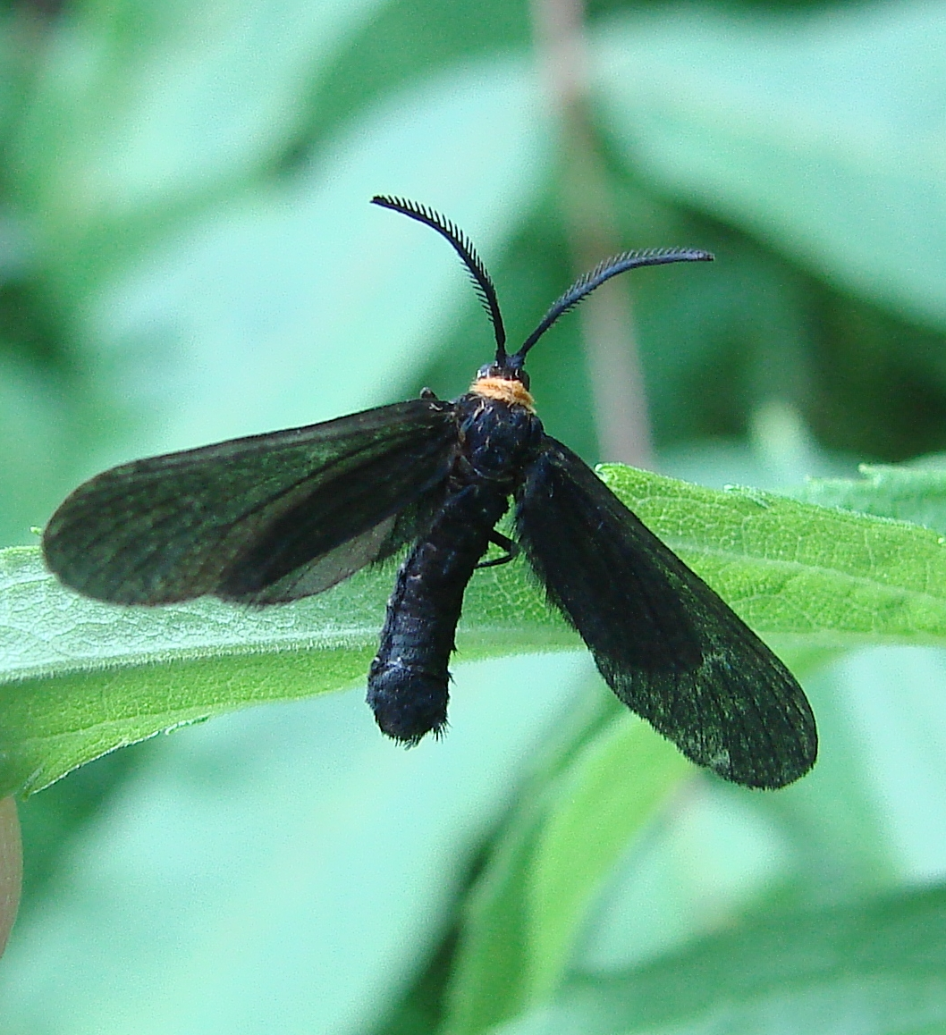 Grapeleaf Skeletonizer, Harrisina americana - moth - Cross Plains, WI, USA